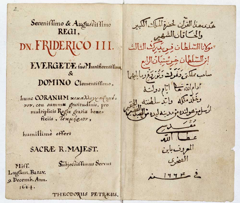 Quran manuscript from "Skatte i Det Kongelige Bibliotek", The Royal Library, Denmark Dedication in English and Arabic from the danish orientalist Theodor Petræus (ca. 1630-1672) to the king, Frederick III of Denmark. The book was sent from Leiden 1664 Size:16.2 x 10.5 cm